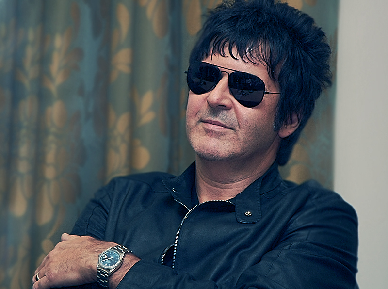 American drummer Clem Burke